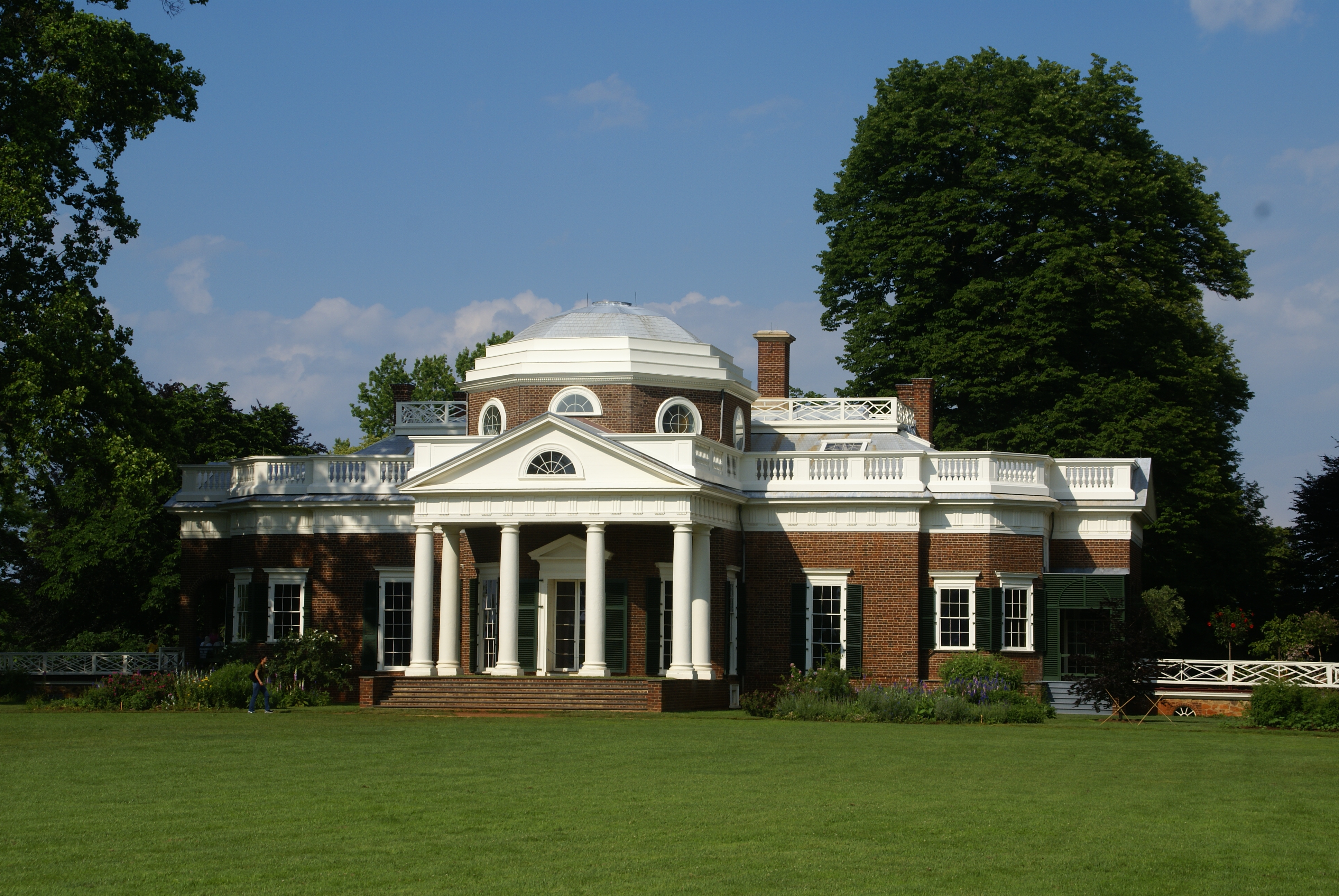 "Monticello, from its west lawn" (original flickr description)